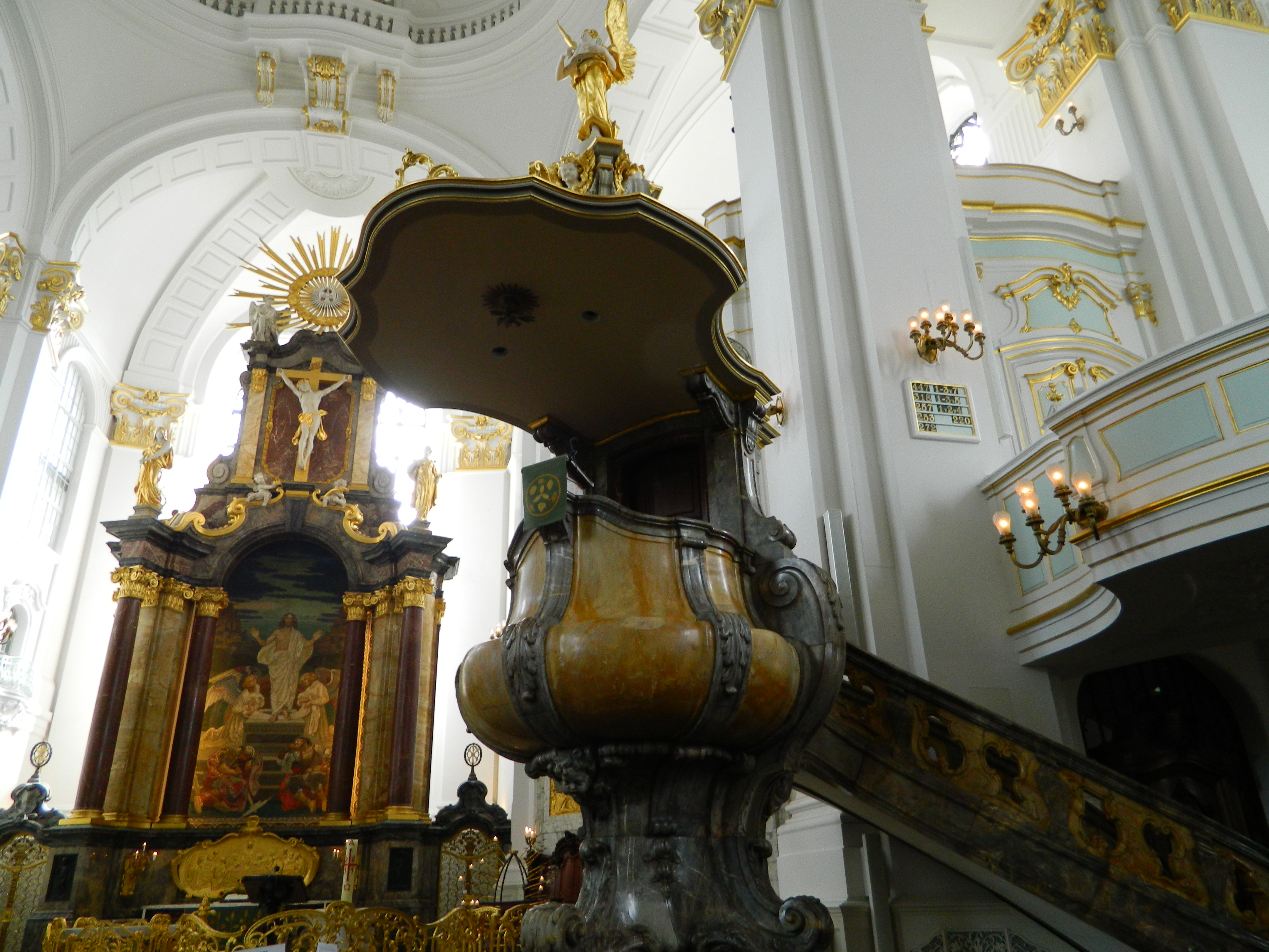 Hamburg. St. Michaelis Church